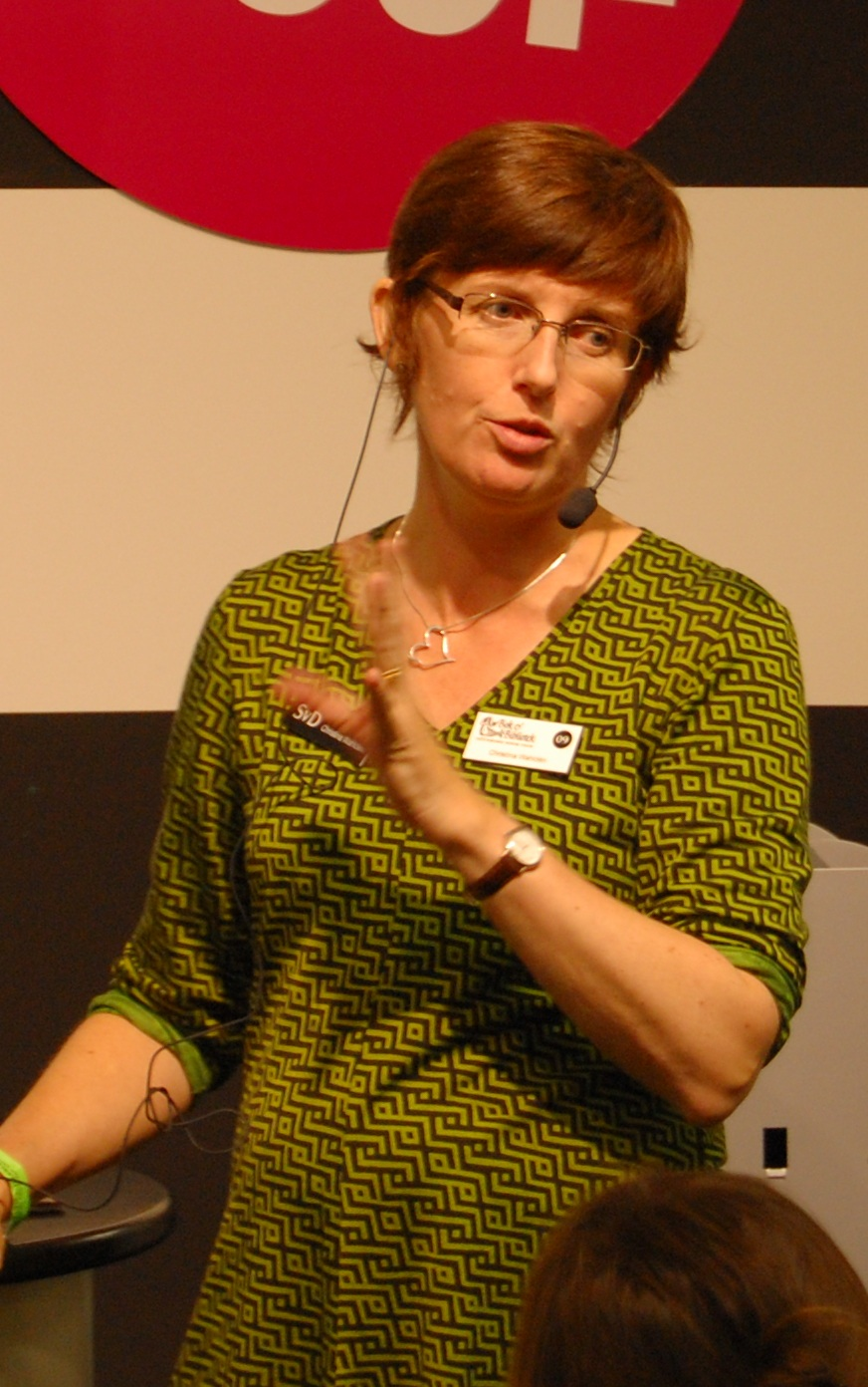 Image from Gothenburg Book Fair 2009